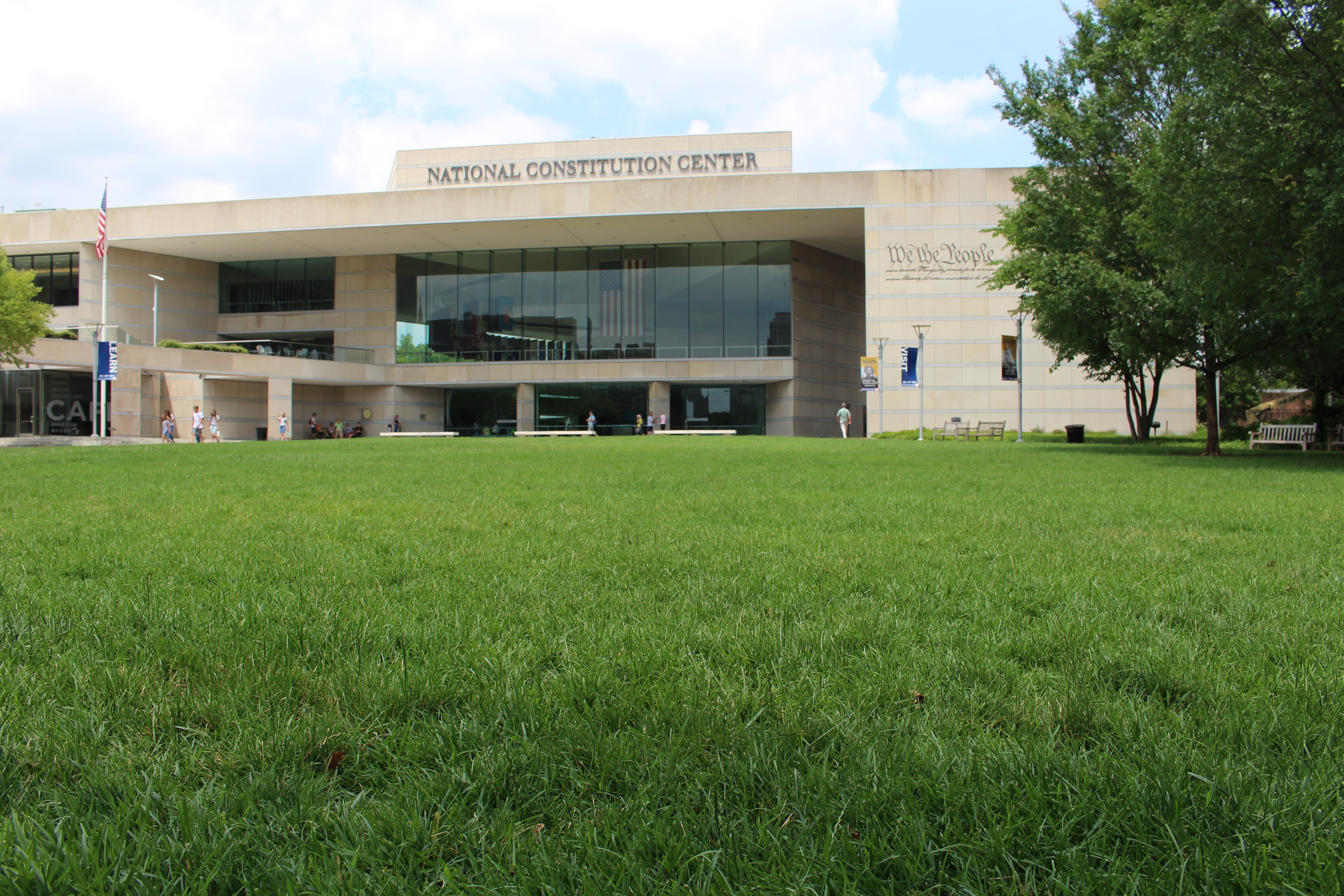 The front lawn and facade of the National Constitution Center